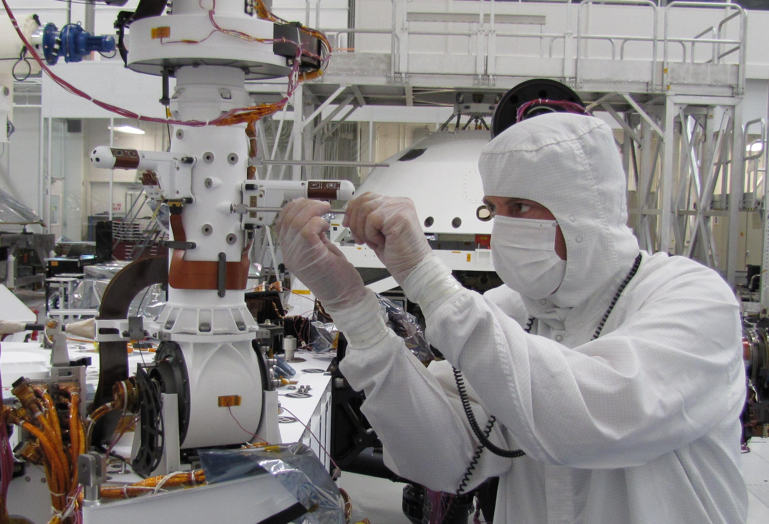 Sensors on two finger-like mini-booms extending horizontally from the mast of NASA's Mars rover Curiosity will monitor wind speed, wind direction and air temperature. One also will monitor humidity; the other also will monitor ground temperature. The sensors are part of the Rover Environmental Monitoring Station, or REMS, provided by Spain for the Mars Science Laboratory mission. In this image, the spacecraft specialist's hands are just below one of the REMS mini-booms. The other mini-boom extends to the left a little farther up the mast. The image was taken during installation of the instrument in September 2011, inside a clean room at NASA's Jet Propulsion Laboratory, Pasadena, Calif. REMS also includes an ultraviolet-light sensor on the rover deck and, inside the body of the rover, an air-pressure sensor and the instrument's data recorder and electronic controls.